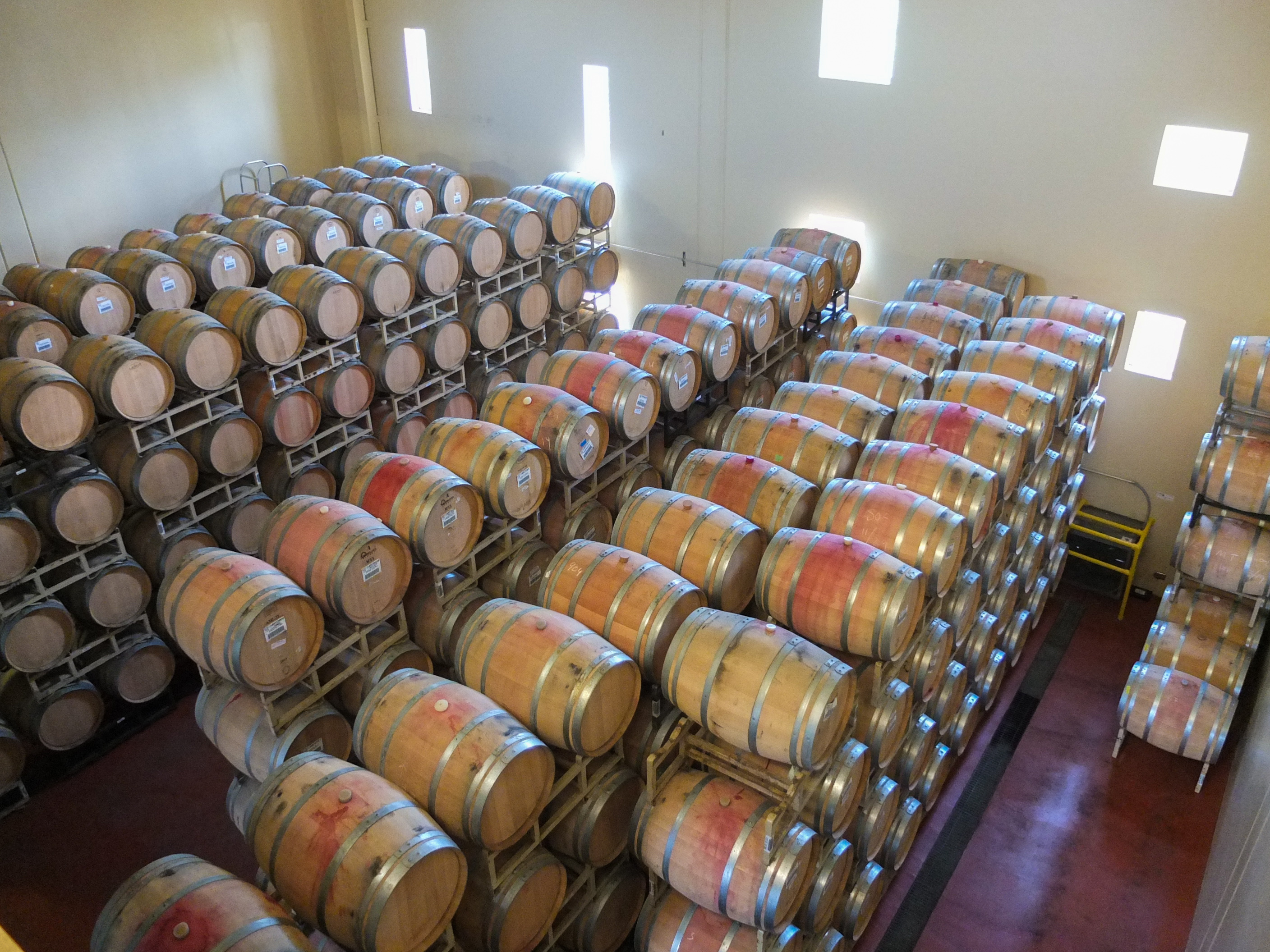 Wine barrels, Sterling Vineyards, Napa Valley